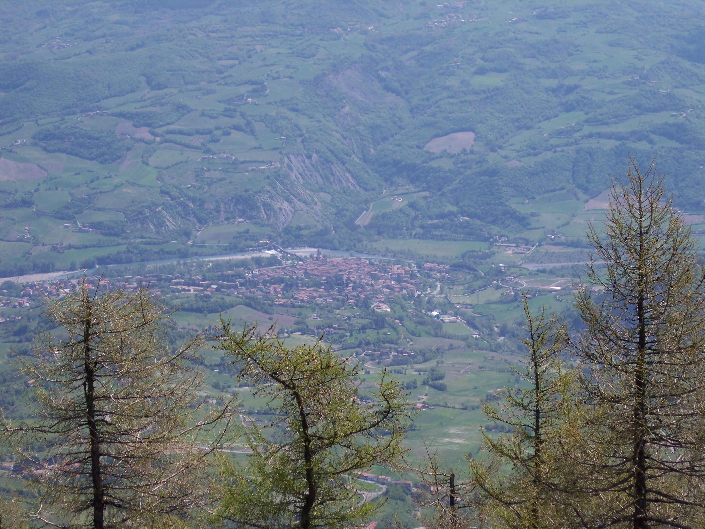 View of the town of Bobbio, close to Piacenza, Italy, from the closeby mountain Monte Penice.